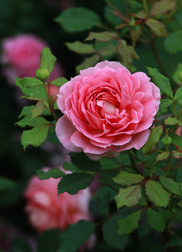 Rosa 'Jubilee Celebration'. Picture taken in Vladimir Oblast, Russia.